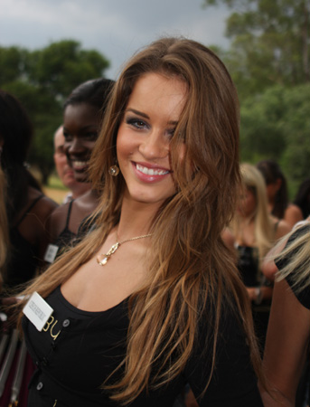 Miss Czech Republic Zuzana Jandov during Miss World 08 in Johannesburg